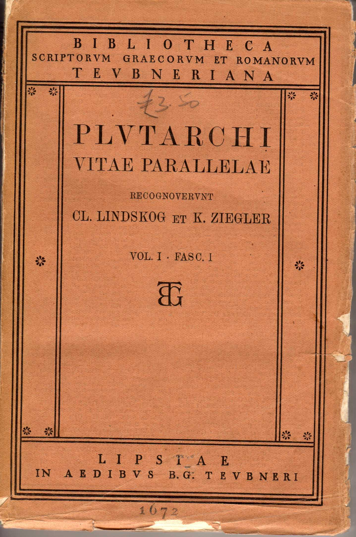 Book cover, Plutarch publ. Teubner